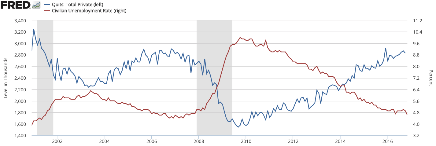 Quits rate and civilian unemployment rate, United States